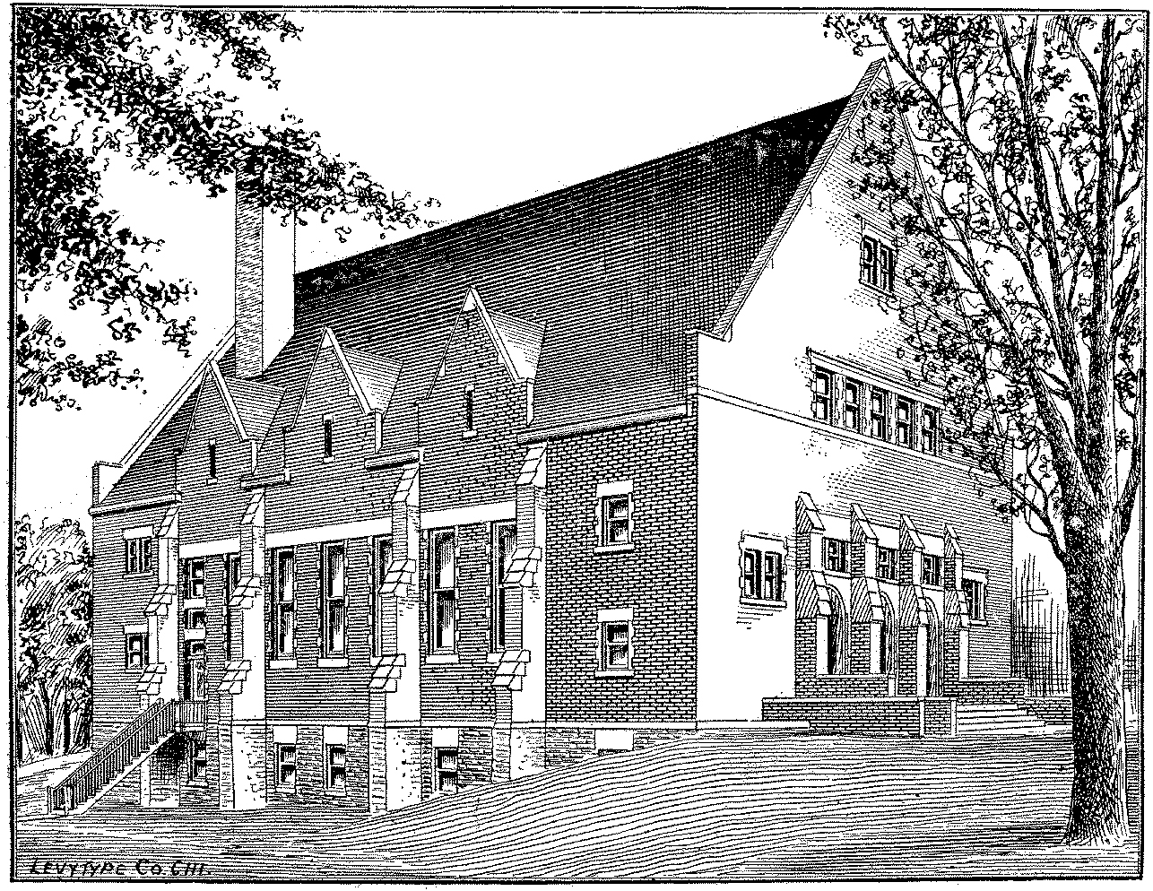 An early engraving of the Monmouth College Auditorium (1895), Dan Everett Waid, architect.